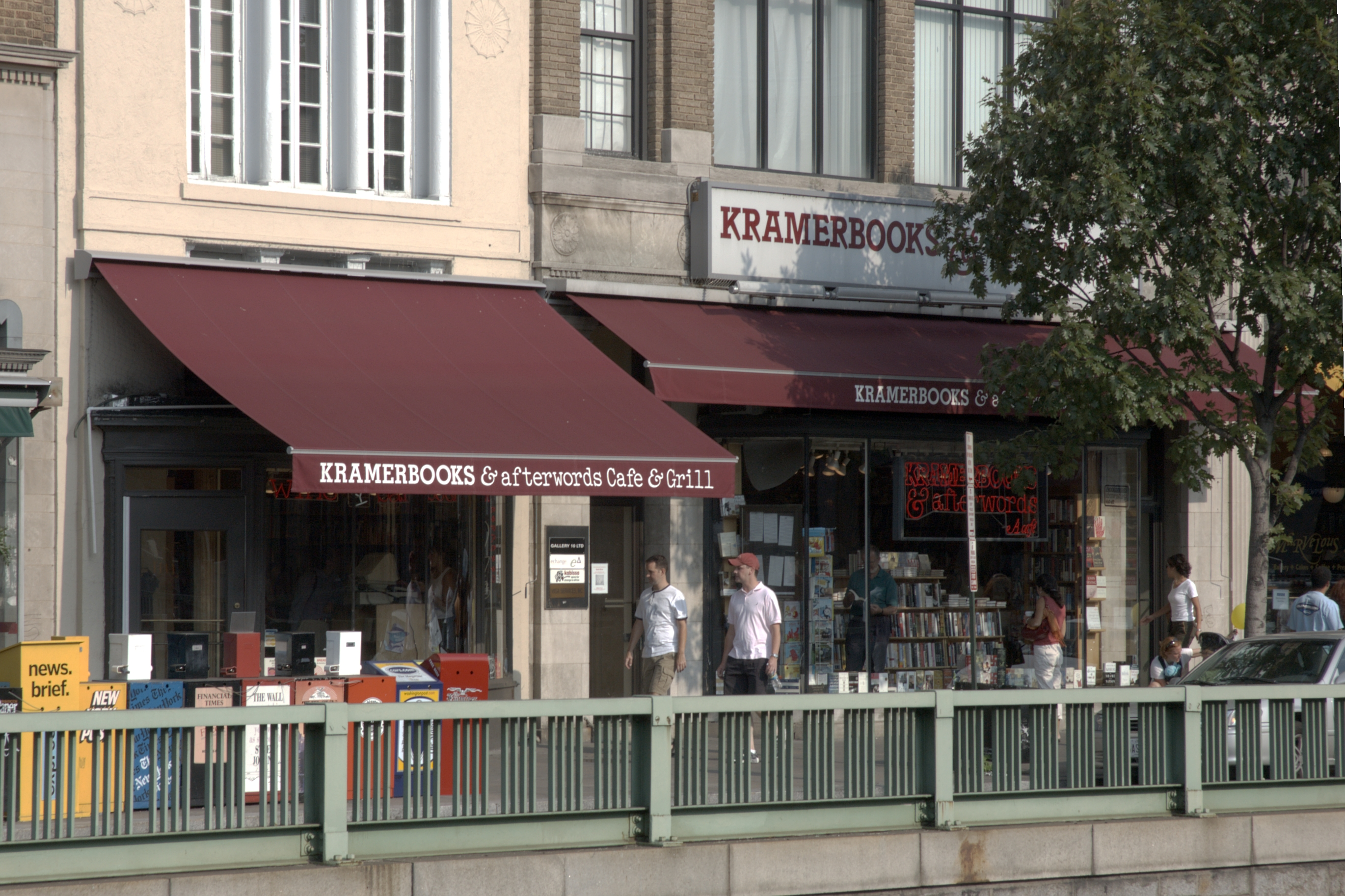 Kramerbooks & Afterwords in Washington, D.C.